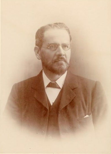 Edward Pulsford, a member of the Australian Senate